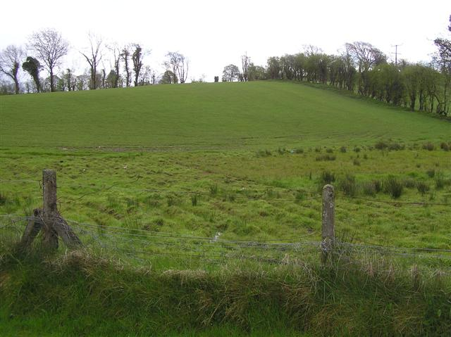 Cloneblaugh Townland Looking south-east